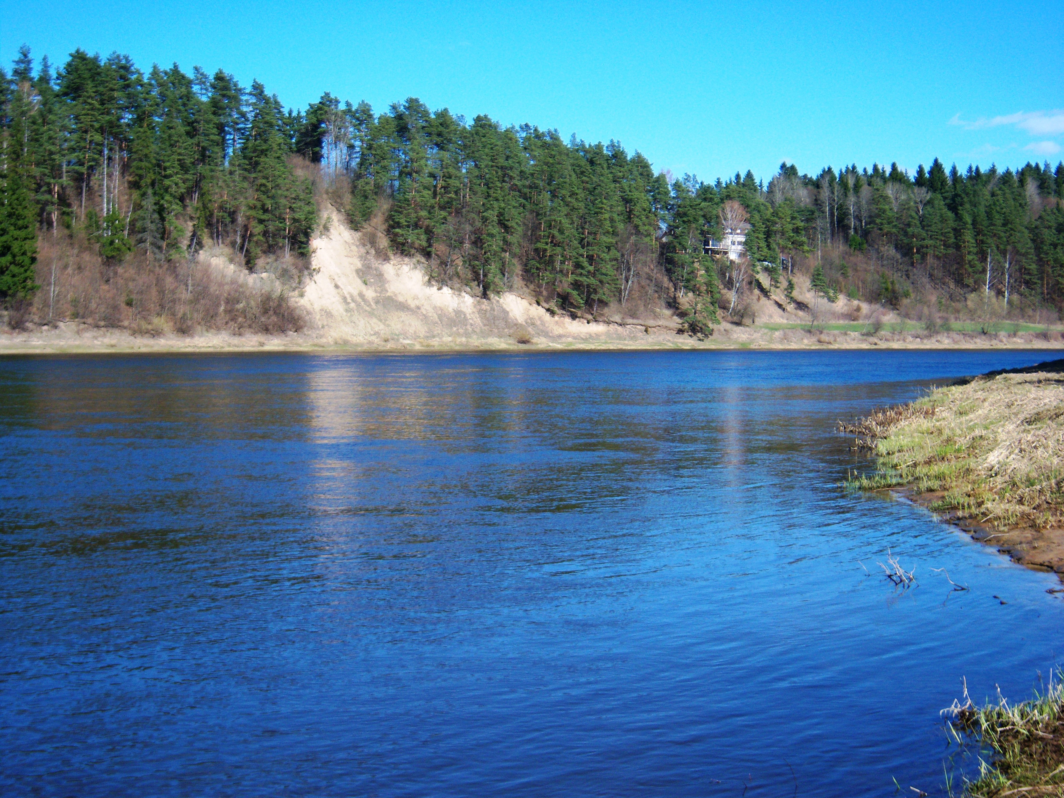 Škėvonių outcrop, Nemunas River, Birštonas Municipality, Lithuania